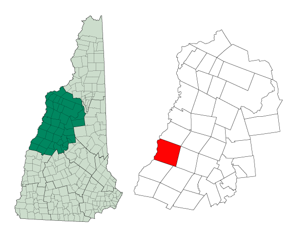 Map of a municipality in Belknap County, New Hampshire